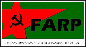 Logo beloging to the Far-left guerrilla Fuerzas Armadas Revolucionarias del Pueblo